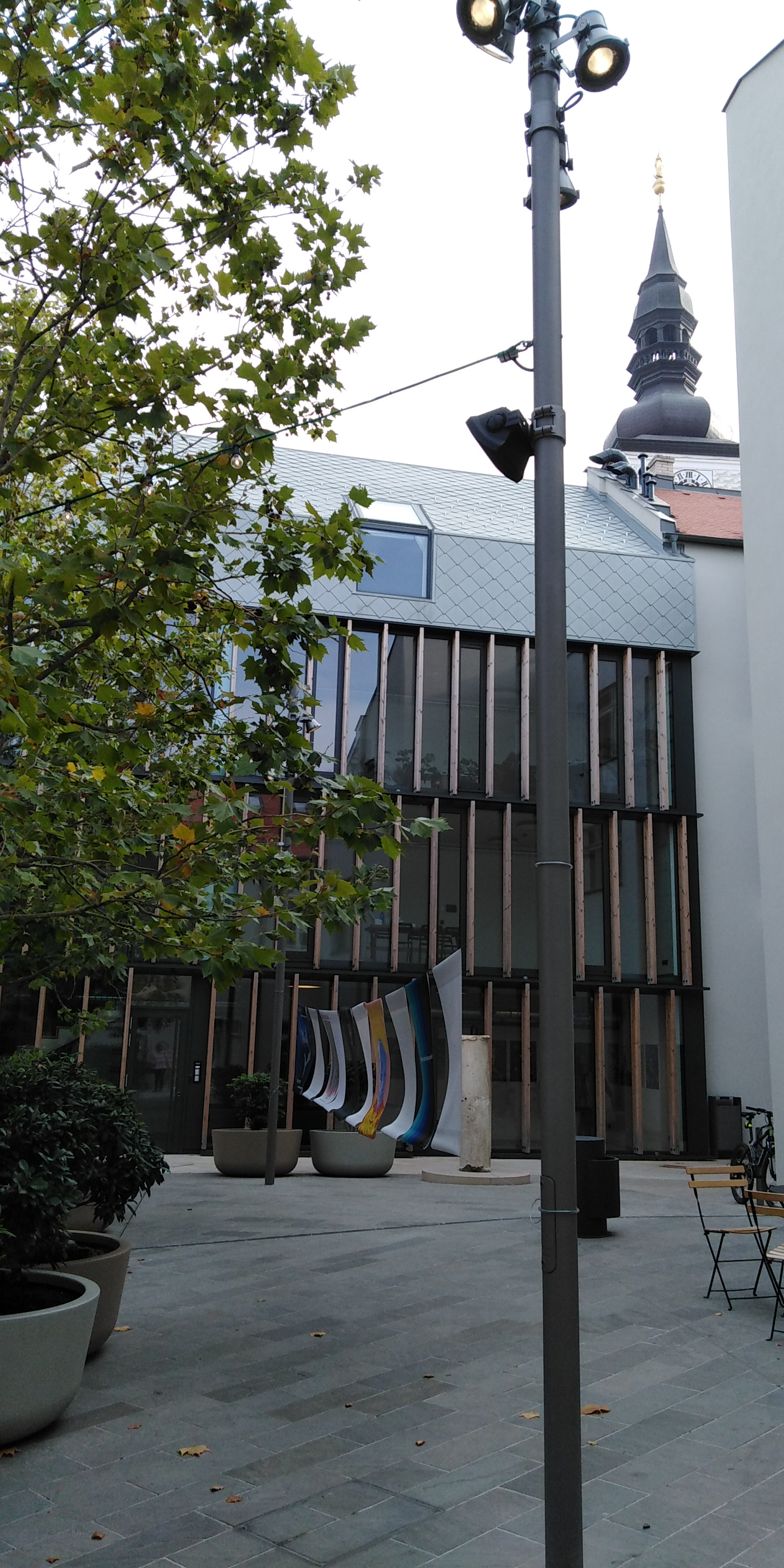 Slovakia - Trnava - Little Berlin